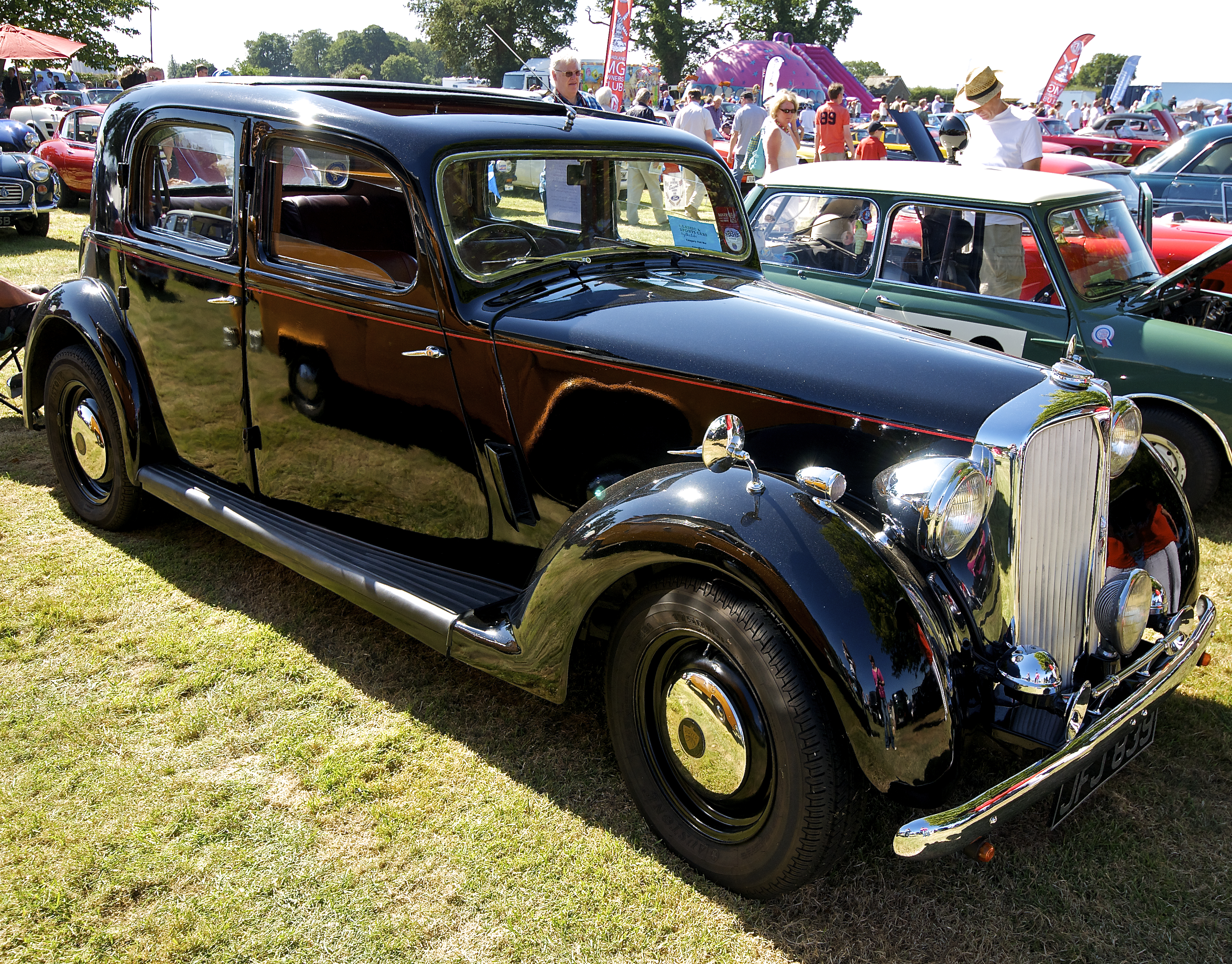 1949 Rover 60 saloon P3 (DVLA) first registered 11 March 1949 Classic Cars By The Lake 9-9-2012